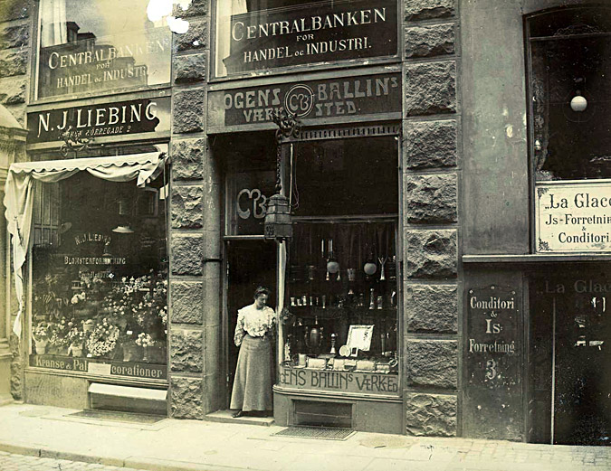 Mogens Ballings Værksted's shop in i Skoubogade in Copenhagen. The workshop itself was located in the former glassworksat Tuborg Havn in Hellerup.